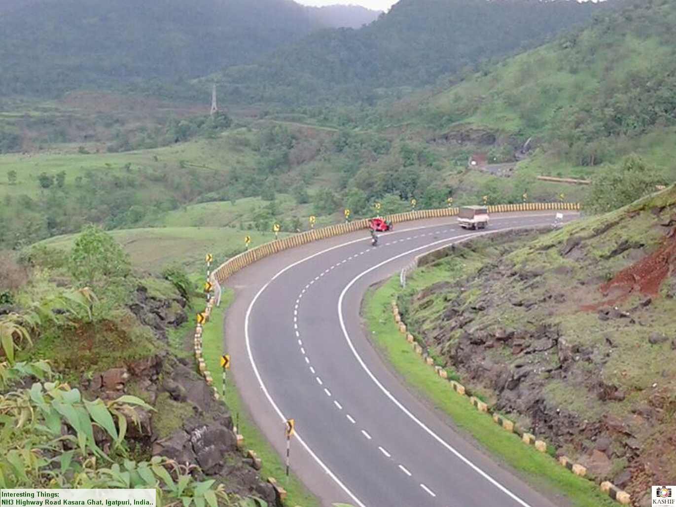 NH 3 through rural parts of Maharashtra. This NH has been renumbered as NH 160 in this area. Roads and highways of India, September 2014